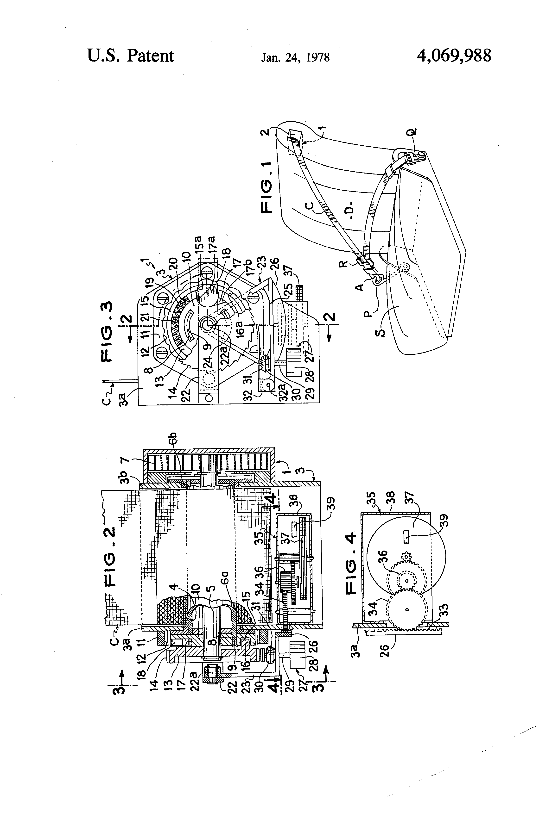 Retracting device for a safety belt plans patent